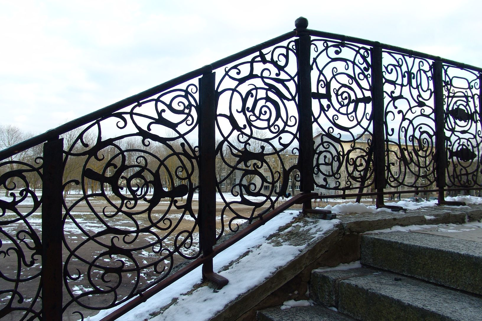 Front staircase of Narva Town Hall